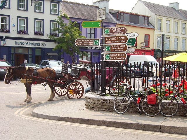 Wheels, Kenmare After Cork, the Kerry tourist industry can be a bit of a shock. Bad news for the cyclists - all roads out of Kenmare are uphill.